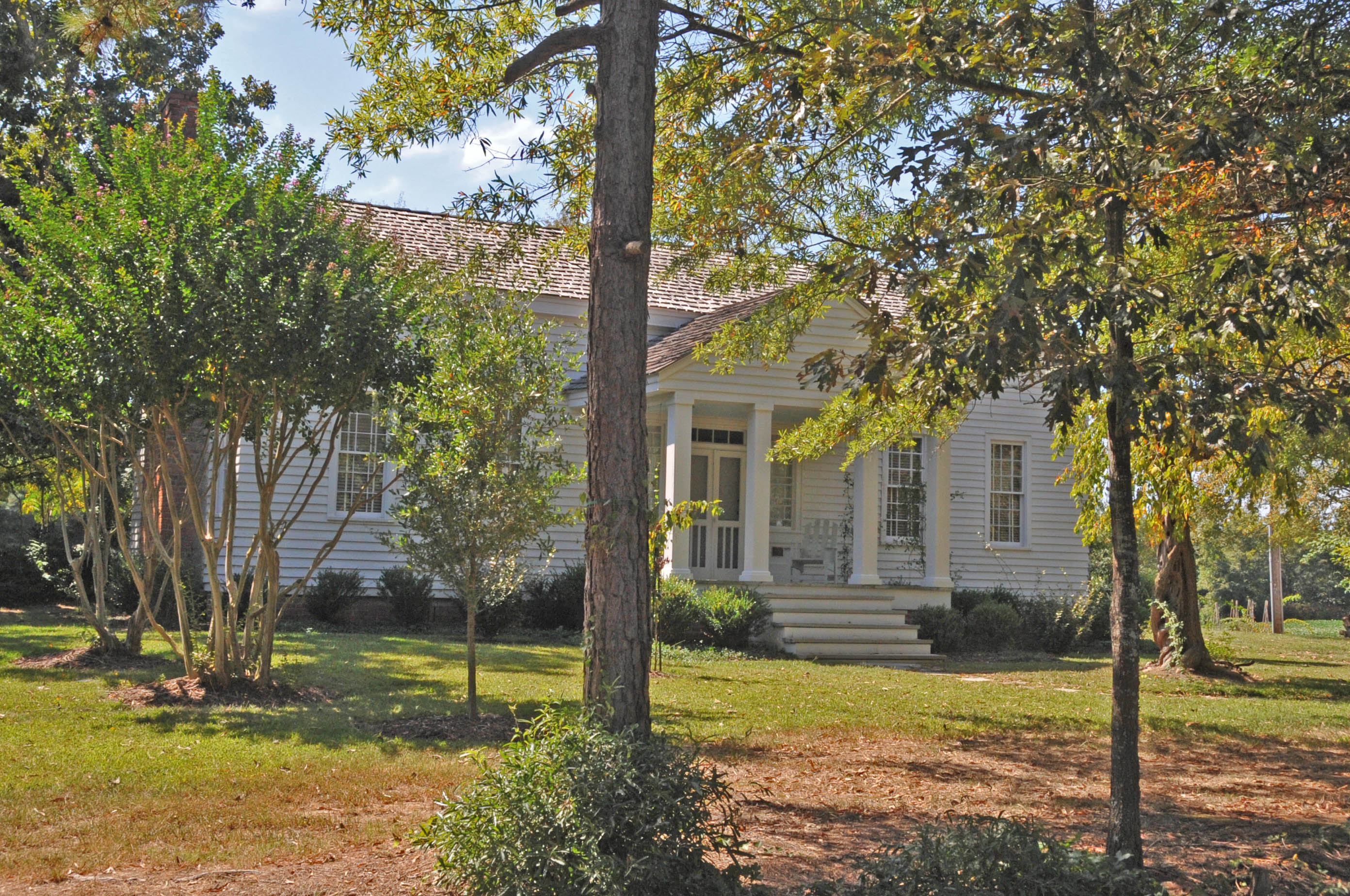 HOUSE DATES FROM BEFORE 1847 WHEN IT WAS MOVED TO ITS PRESENT LOCATION. IT IS ONE OF THE FEW LOCAL GREEK REVIVAL HOUSES IN ANSON COUNTY AND IS THE ONLY ONE WITH DOGTROT PLAN